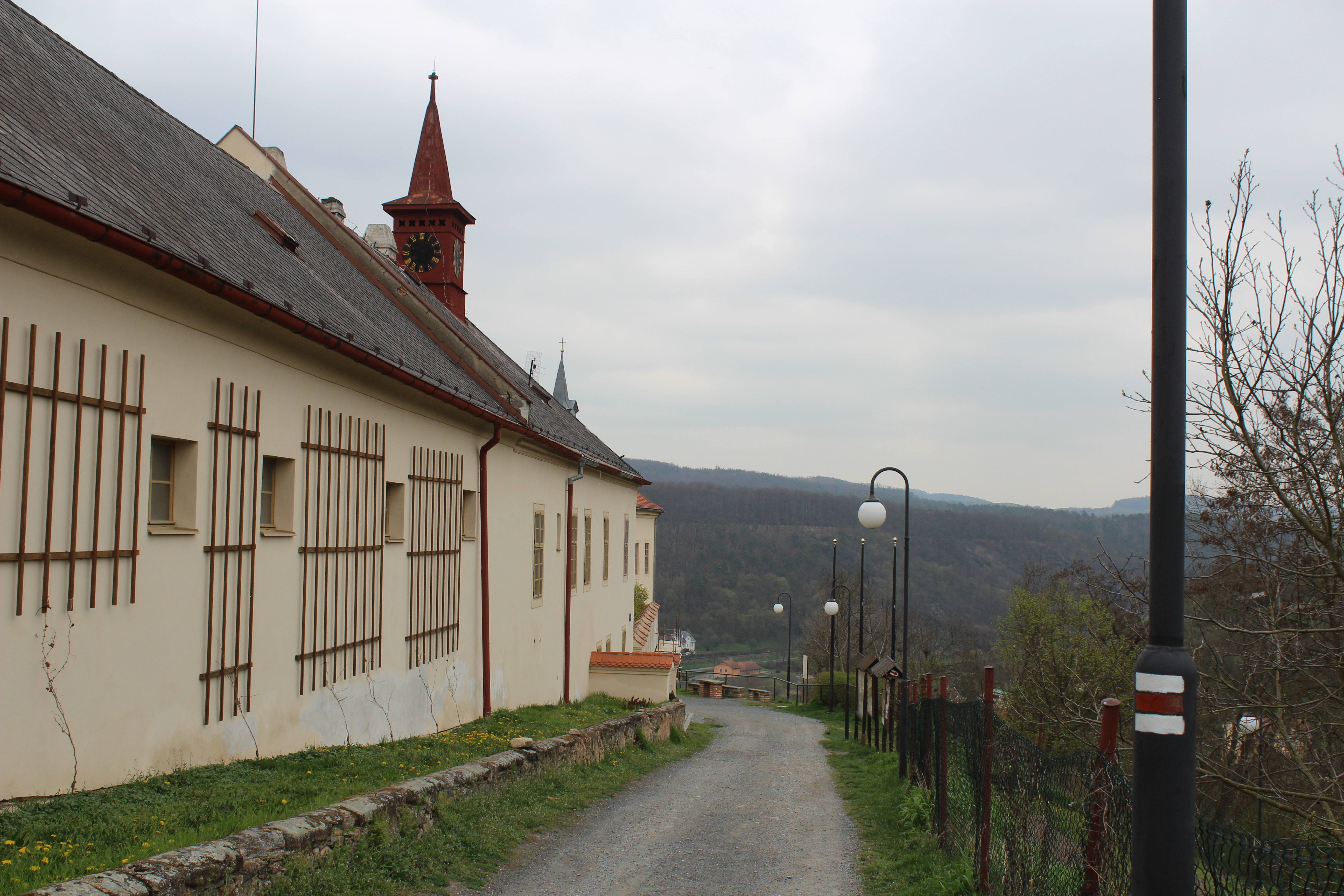 Nižbor Castle